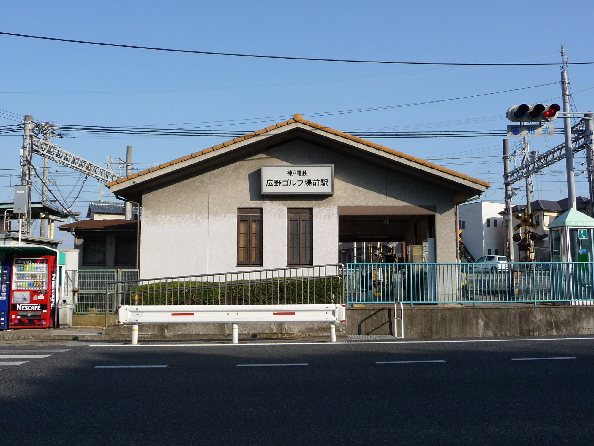 Hirono Golf-jo-mae Staion on Kobe Electric Railway Ao Line